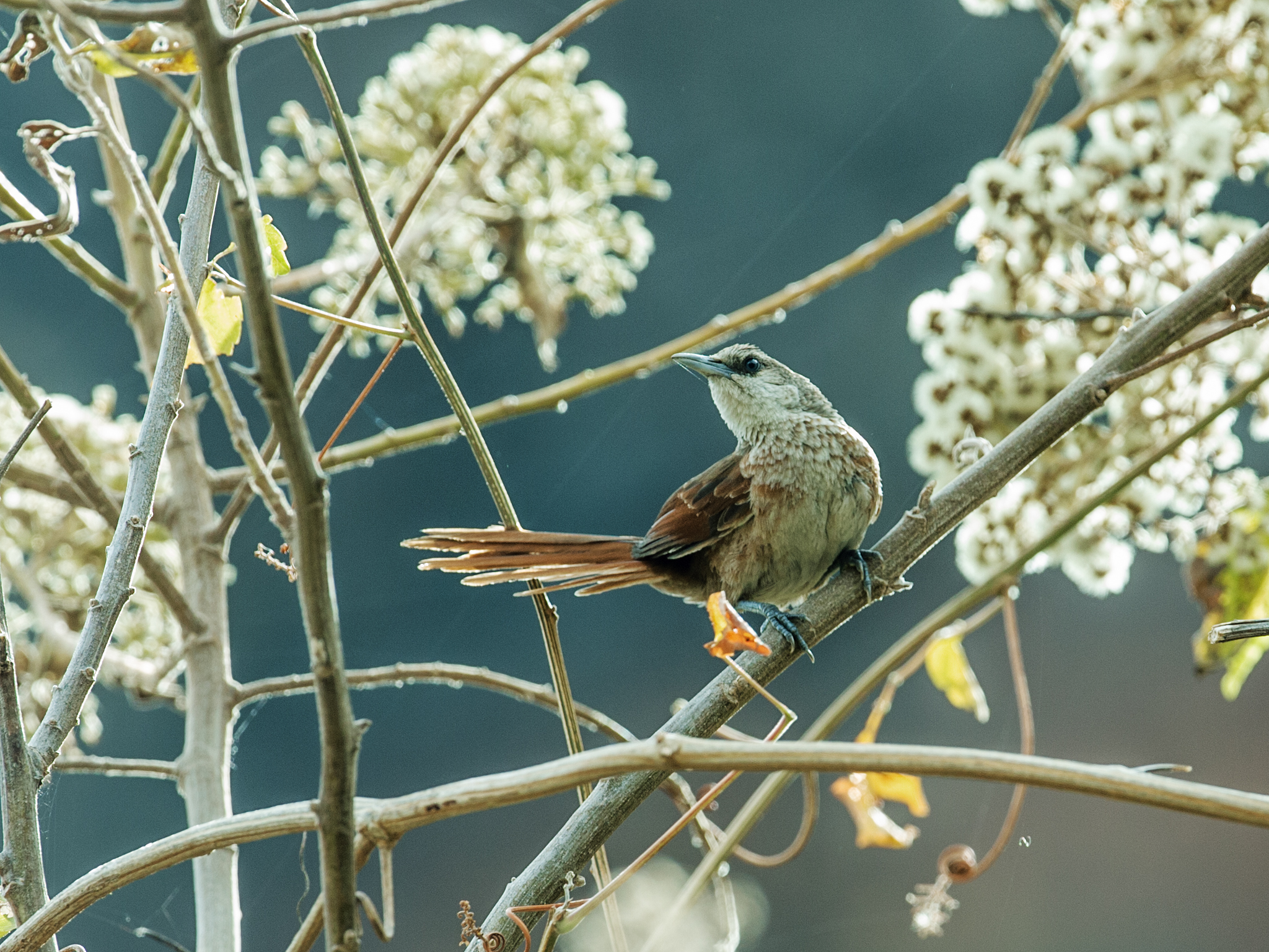 Phacellodomus dorsalis - Chestnut-backed Thornbird from Limón, Cajamarca, Peru.